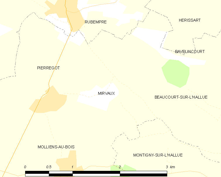 Map of French municipality Mirvaux